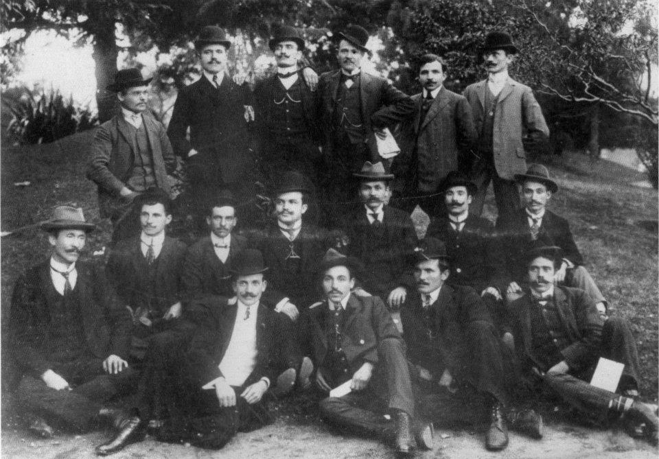 bulgarian revolutionary Nikola Kazandzhiev with friends in Argentina